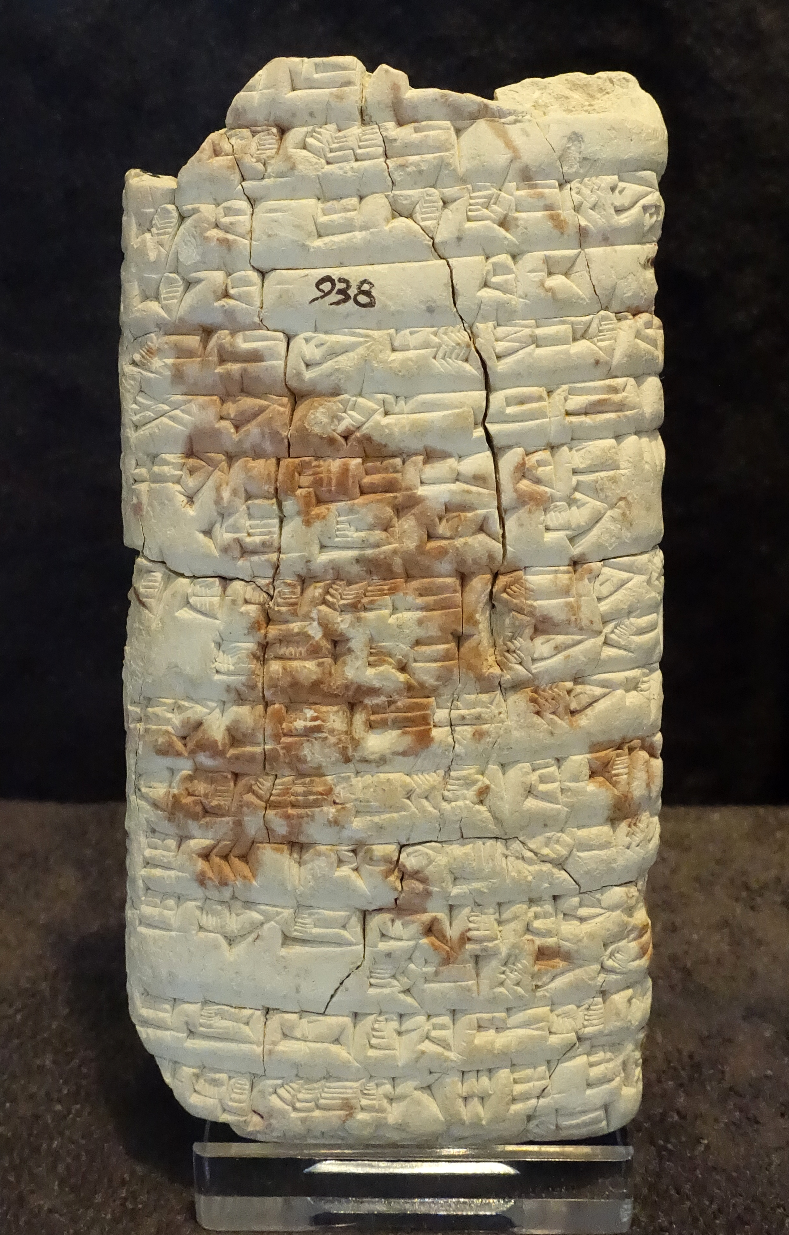 Exhibit in the Spurlock Museum, University of Illinois at Urbana-Champaign - Urbana-Champaign, Illinois, USA. This work is old enough so that it is in the public domain.